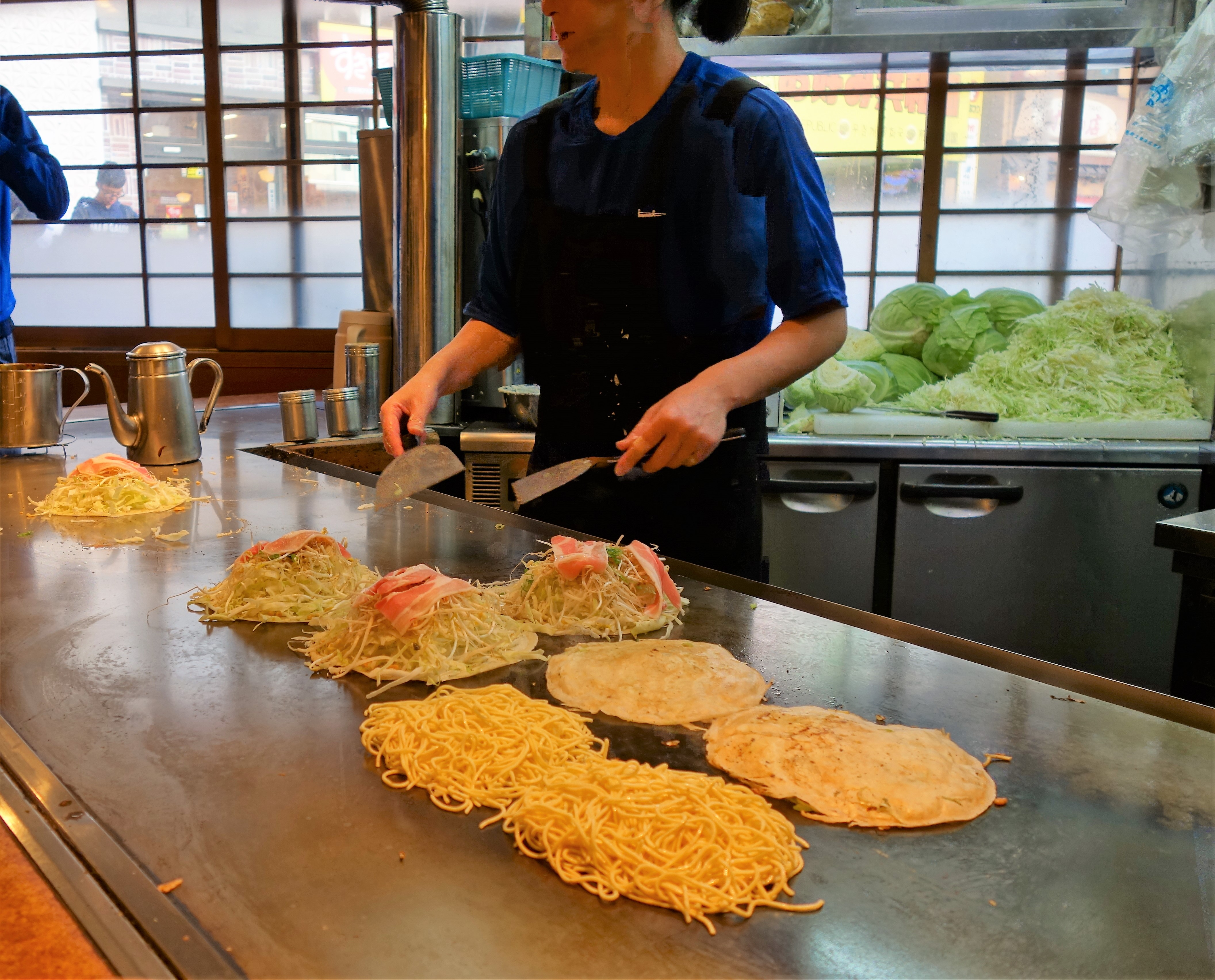 hiroshimayaki and hiroshimayaki restrant "henkutsuya" in hiroshima nakaku, japan